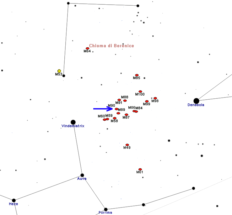 Map of M90